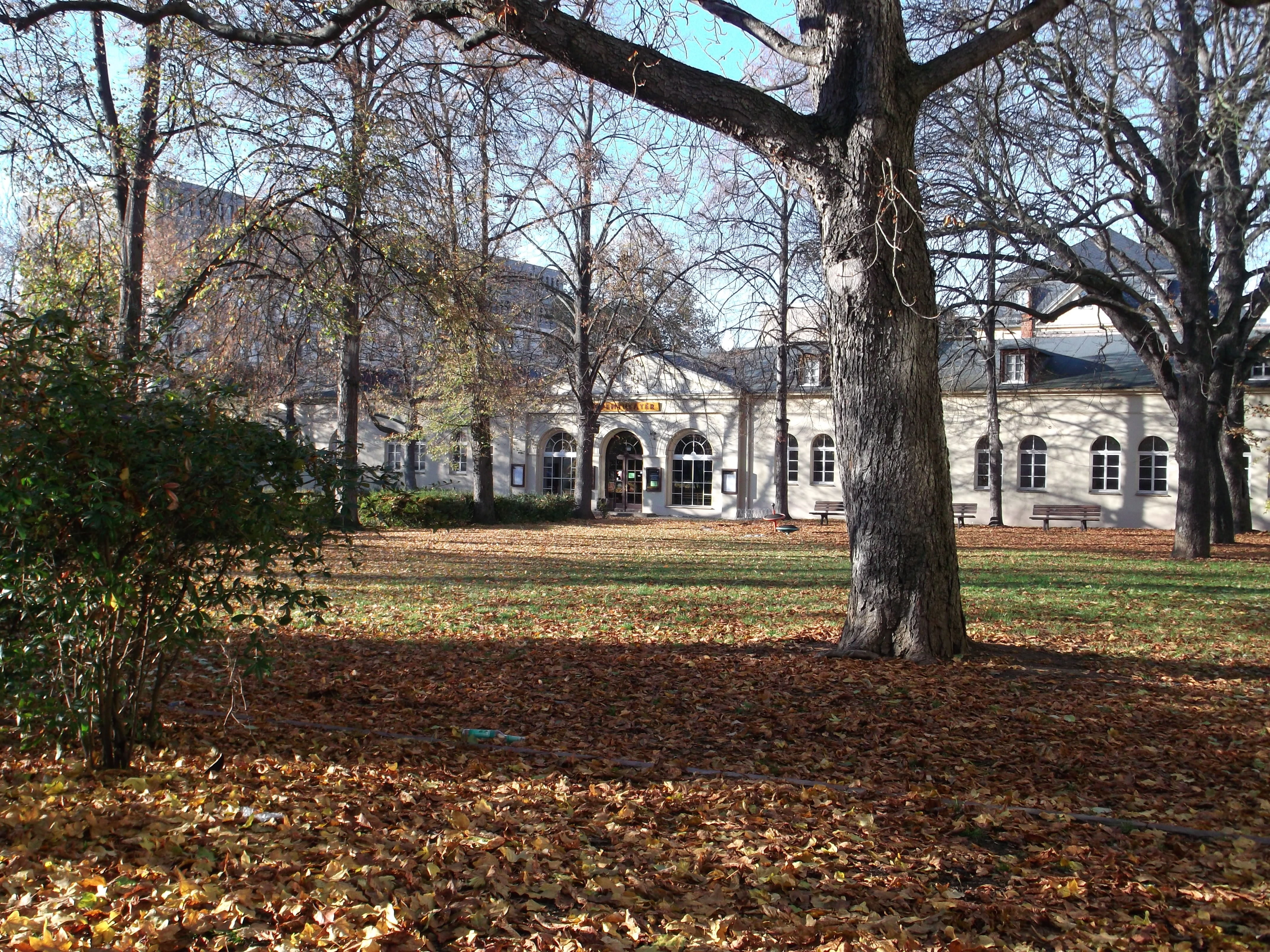 Puppet theater at Gustav-Hennig-Platz in Gera, Germany